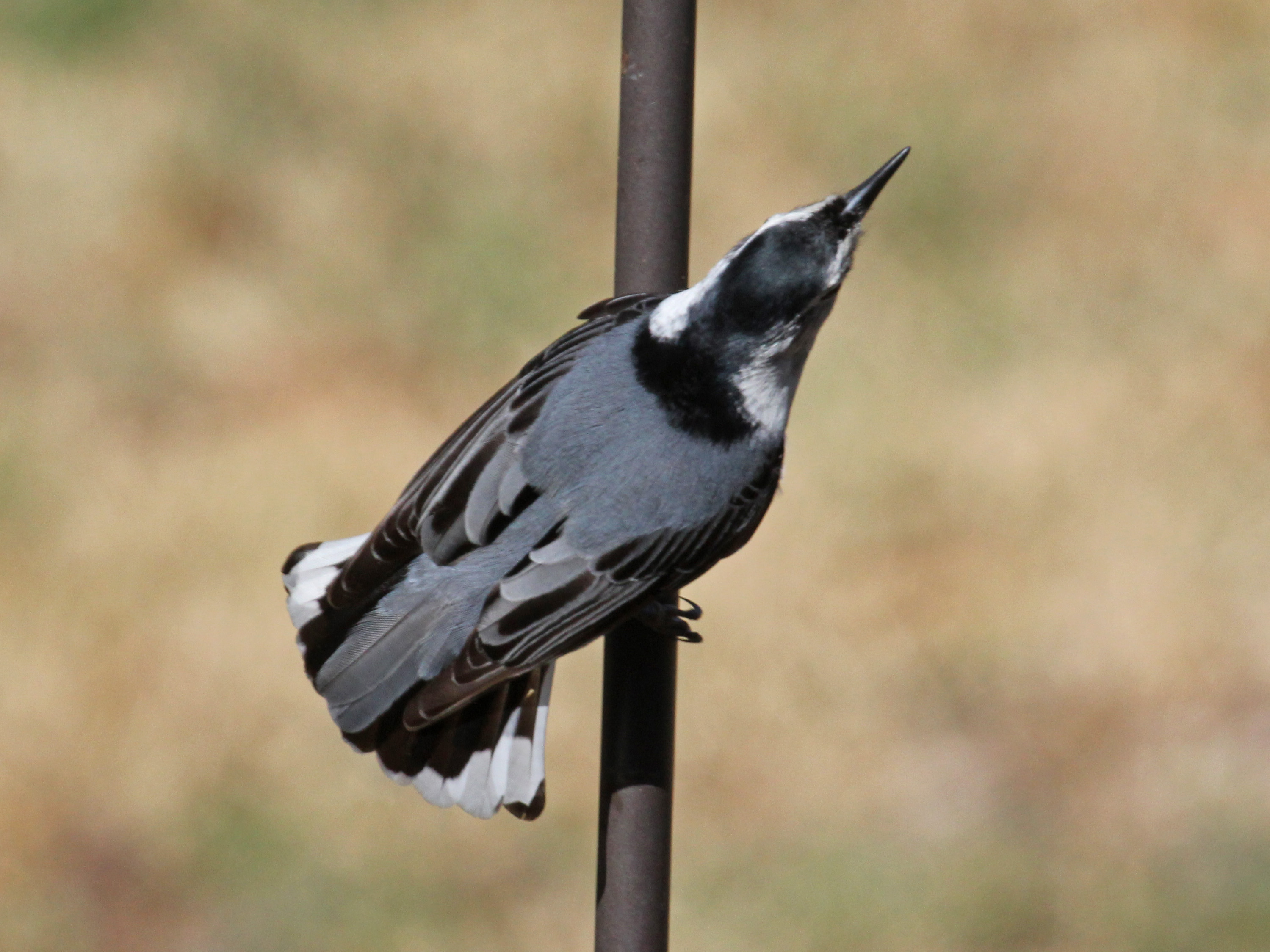 White-breasted Nuthatch (Sitta carolinensis) - Ash, North Carolina